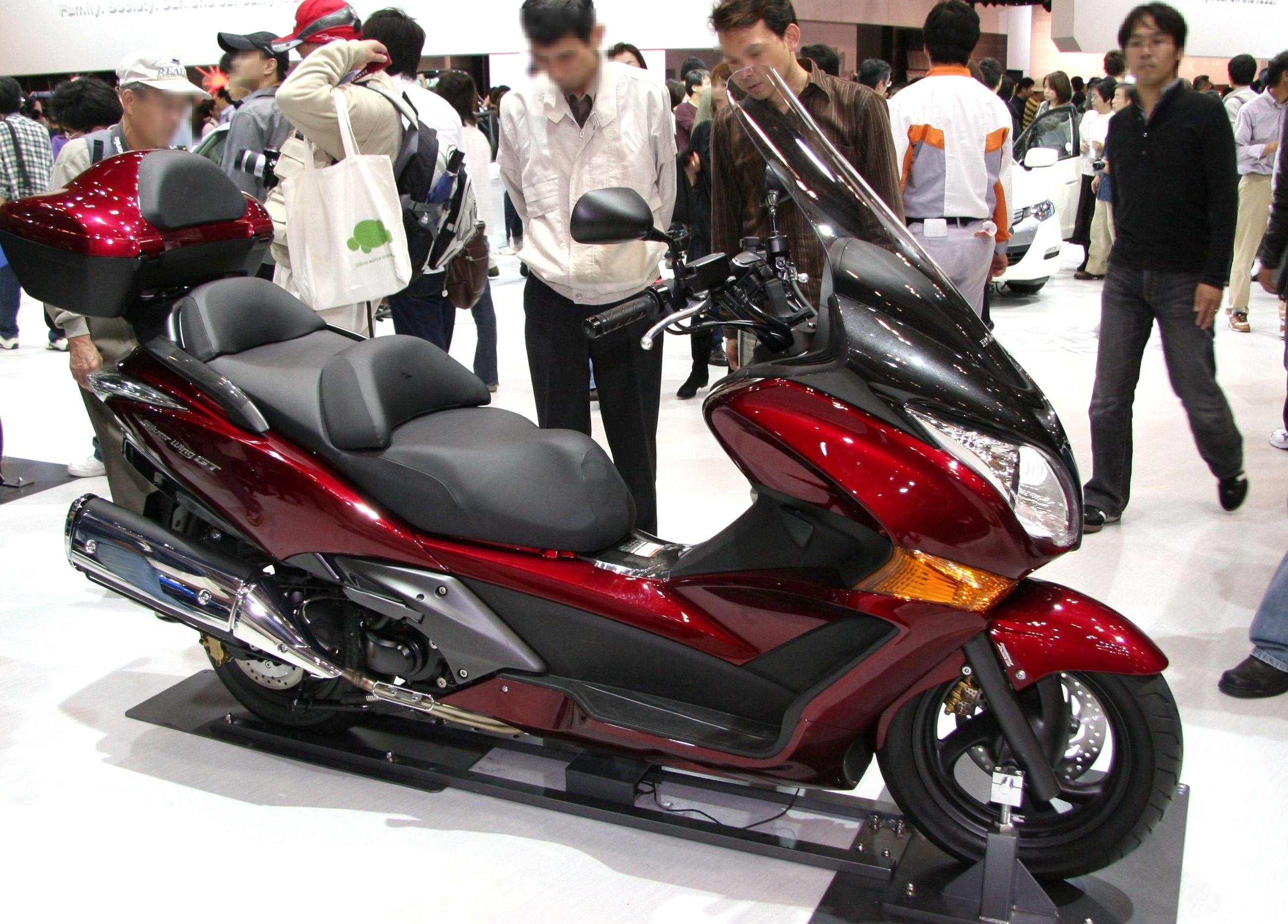 Honda Silver Wing